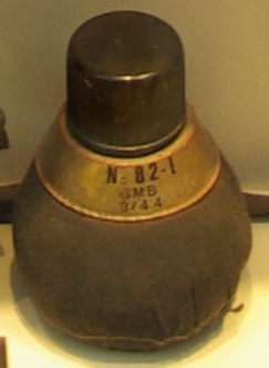 A british anti-tank grenade N°82 "Gammon bomb".